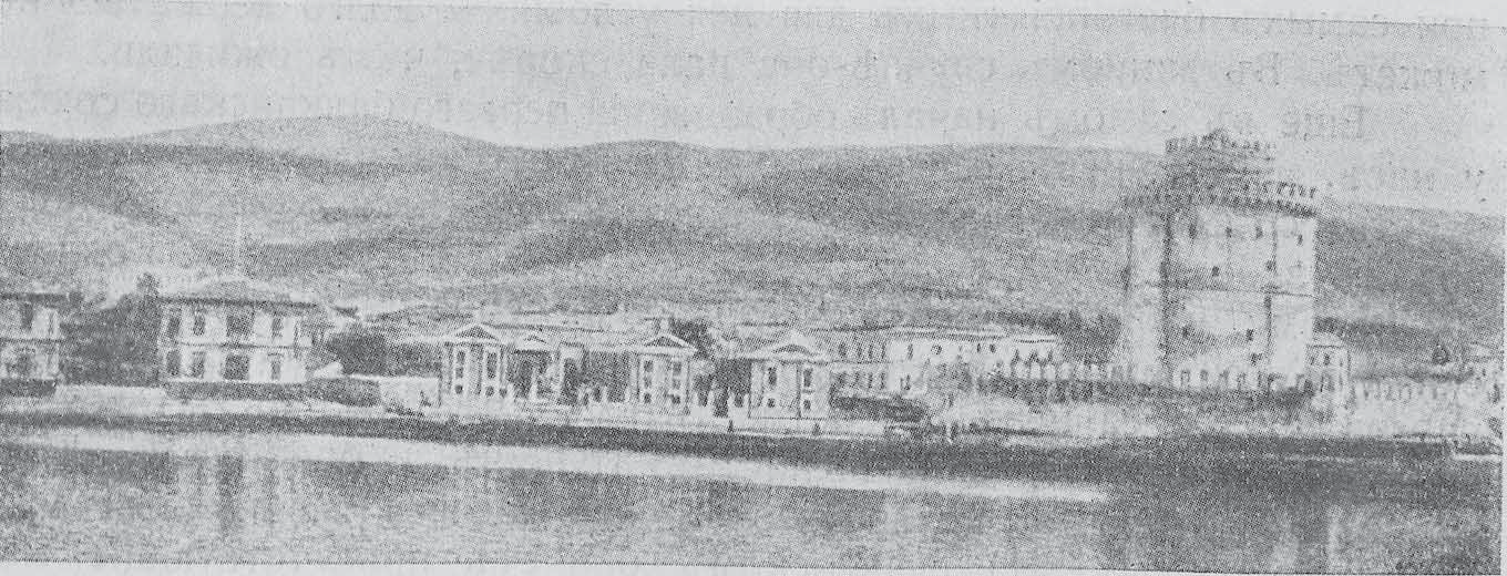 View of Thessaloniki in c. 1913.